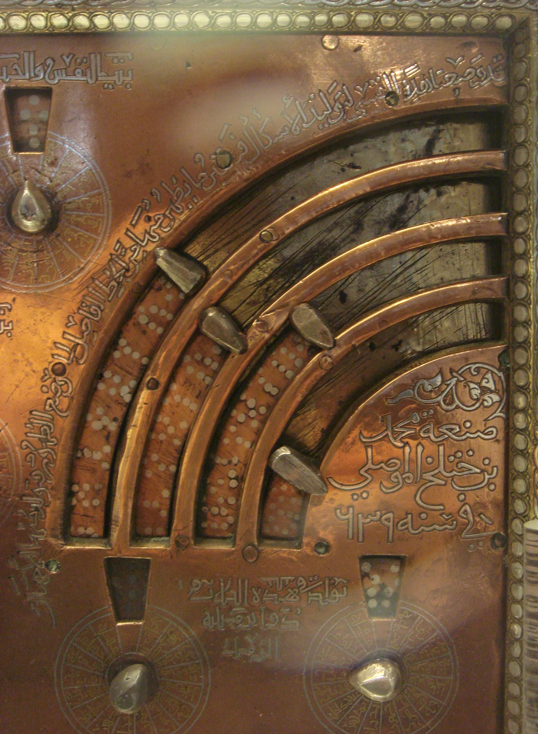 Geomantic_instrument_Egypt_or_Syria_1241_1242_CE_detail_2